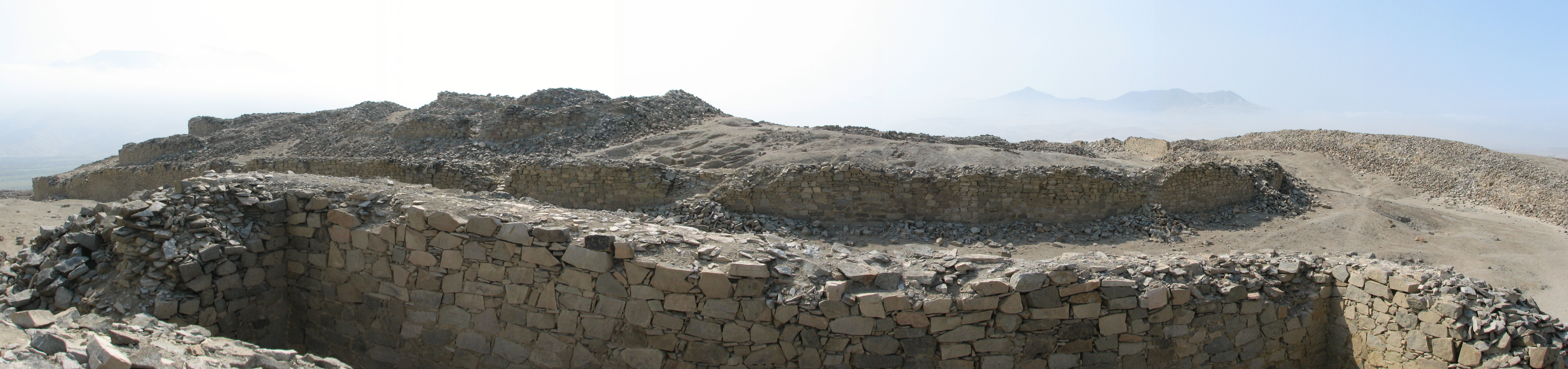 Remains of Chankillo Fortaleza. Archaeological site near Casma, Ancash in Peru